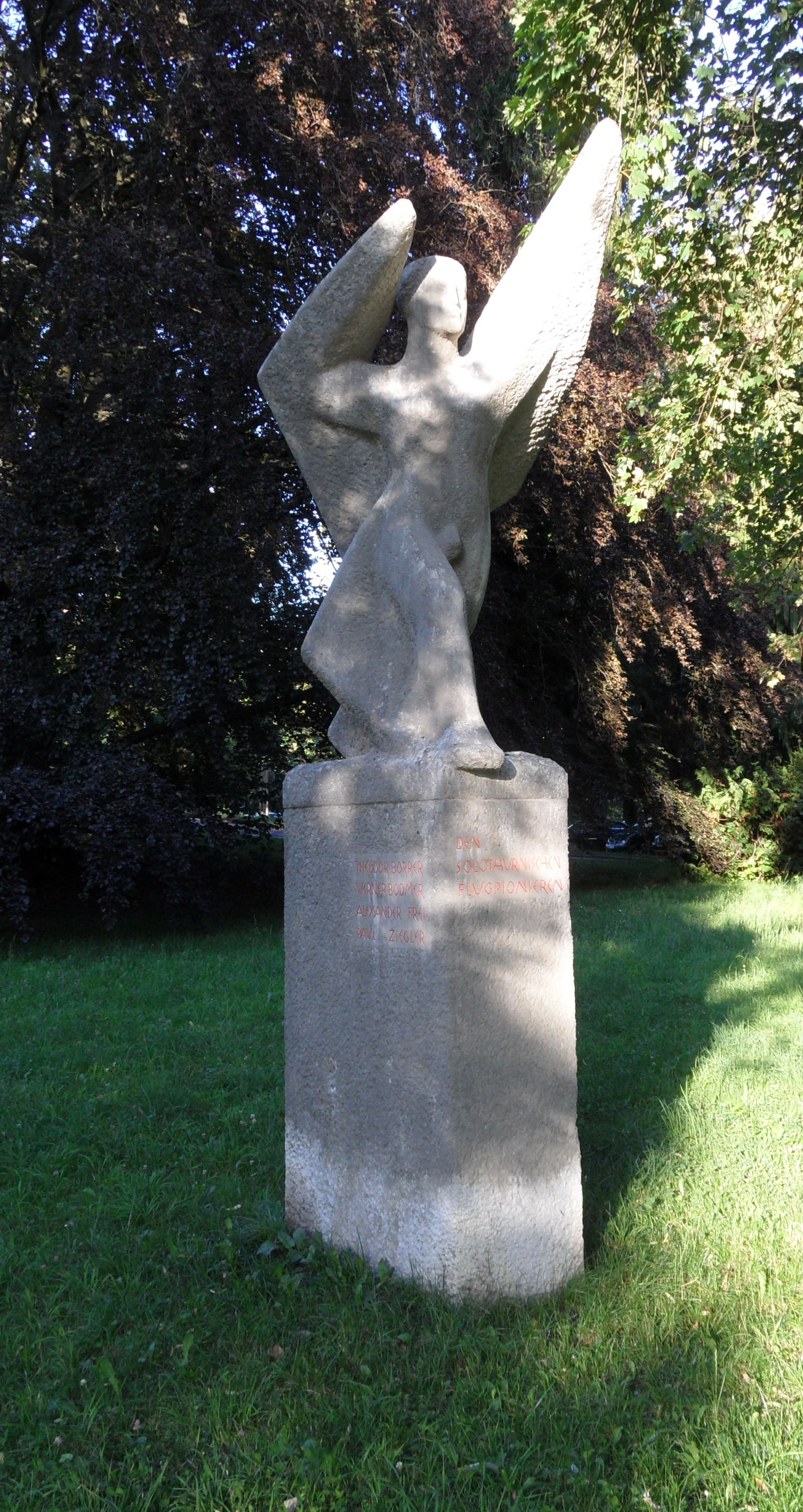 Aviator monument in Solothurn, Switzerland, near the Reformed Church. In commemoration of nine aviation pioneers of the canton of Solothurn: Theodor Borrer, Werner Bodmer, Alexander Frei, Paul Ziegler (names on the left side of the pedestal, visible in this photo); Gottfried Gueniat, Eugen Bouché, Max Cartier, Ernst Gerber, and Adolf Schädler (names on the right side, not visible in this photo).